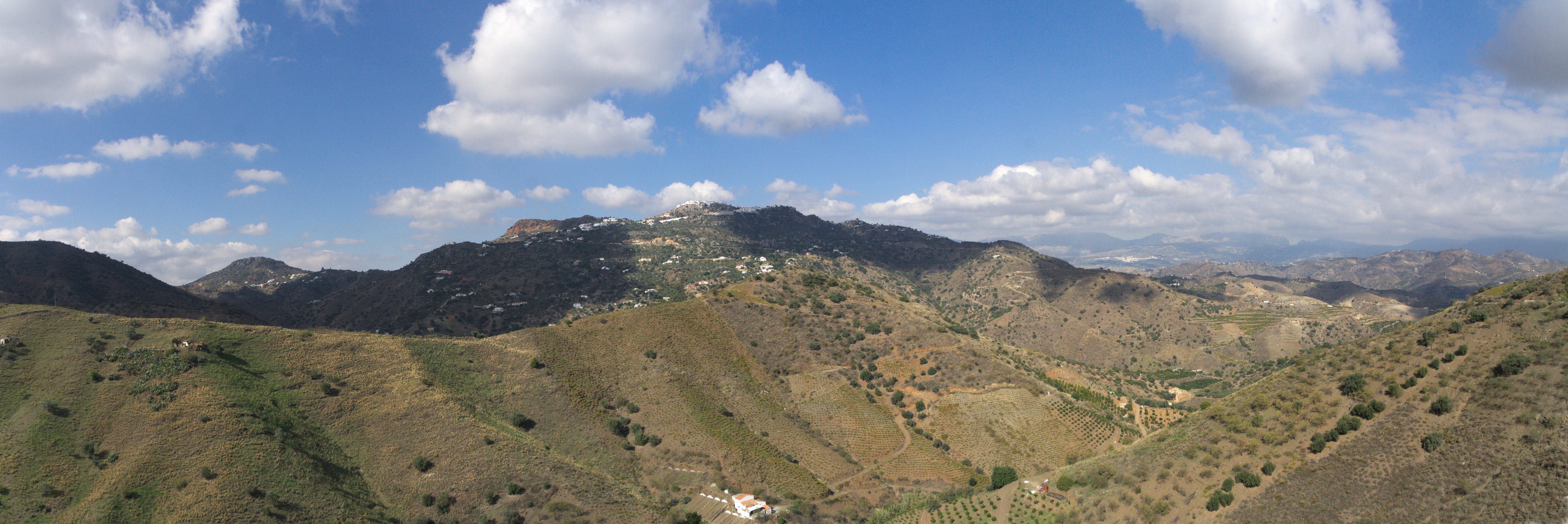 Comares on top of Cerro de Mazmúllar / Andalucia, Spain